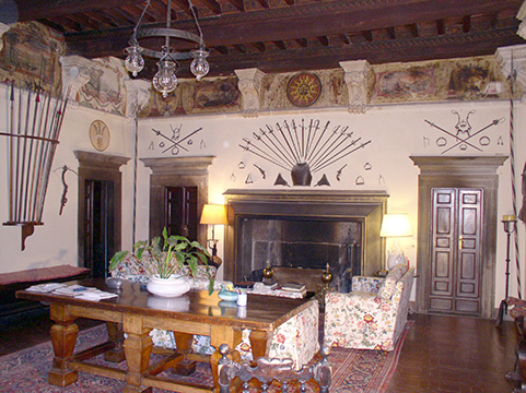 Interior view of the great hall of Montalto Castle in Tuscany, Italy, decorated with frescoes depicting farmhouses belonging to the castle in the 16th century, and showing the large fireplace and collection of lances, armor and weapons dating from the 14th century onward.